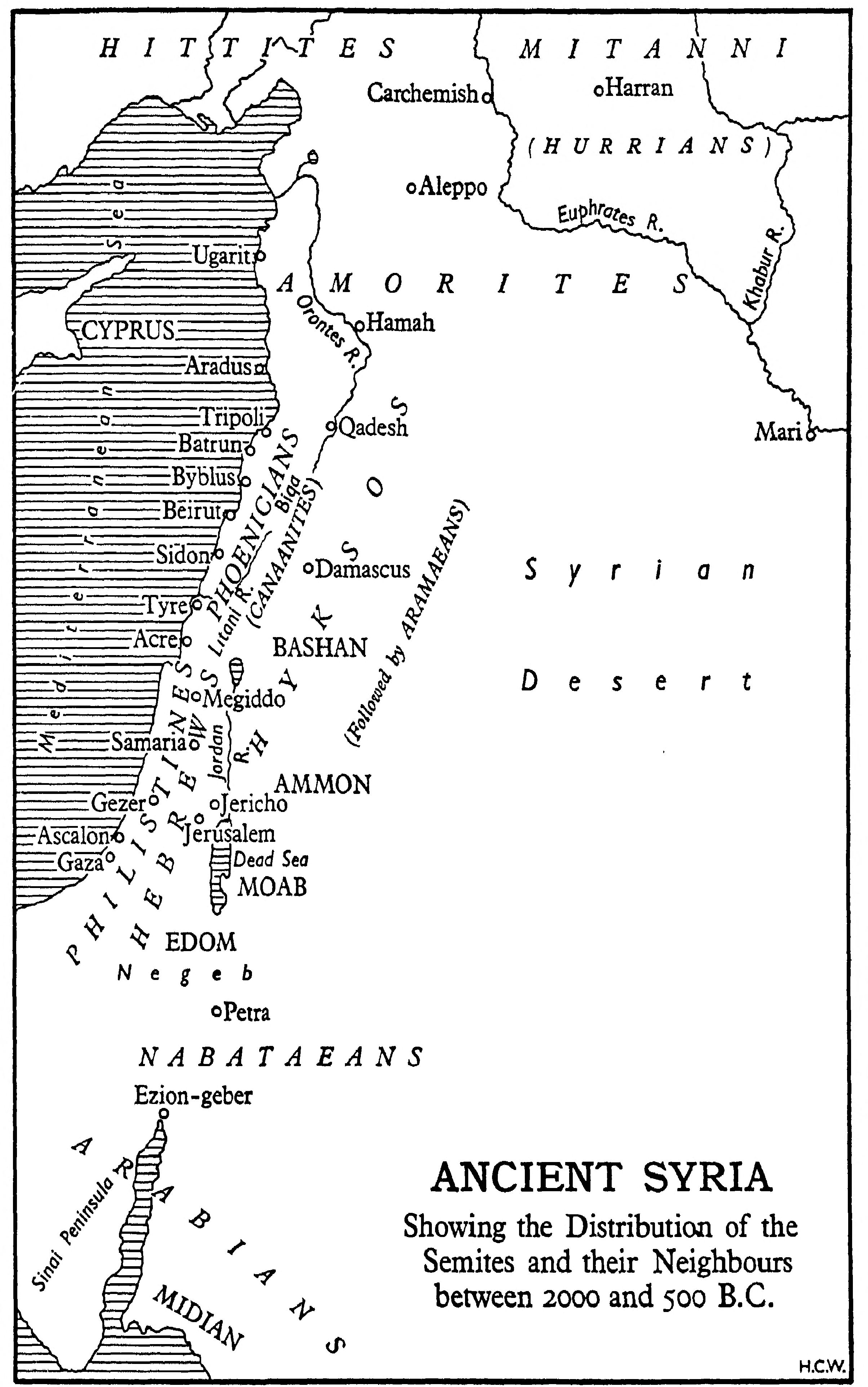 Map of ancient Syria